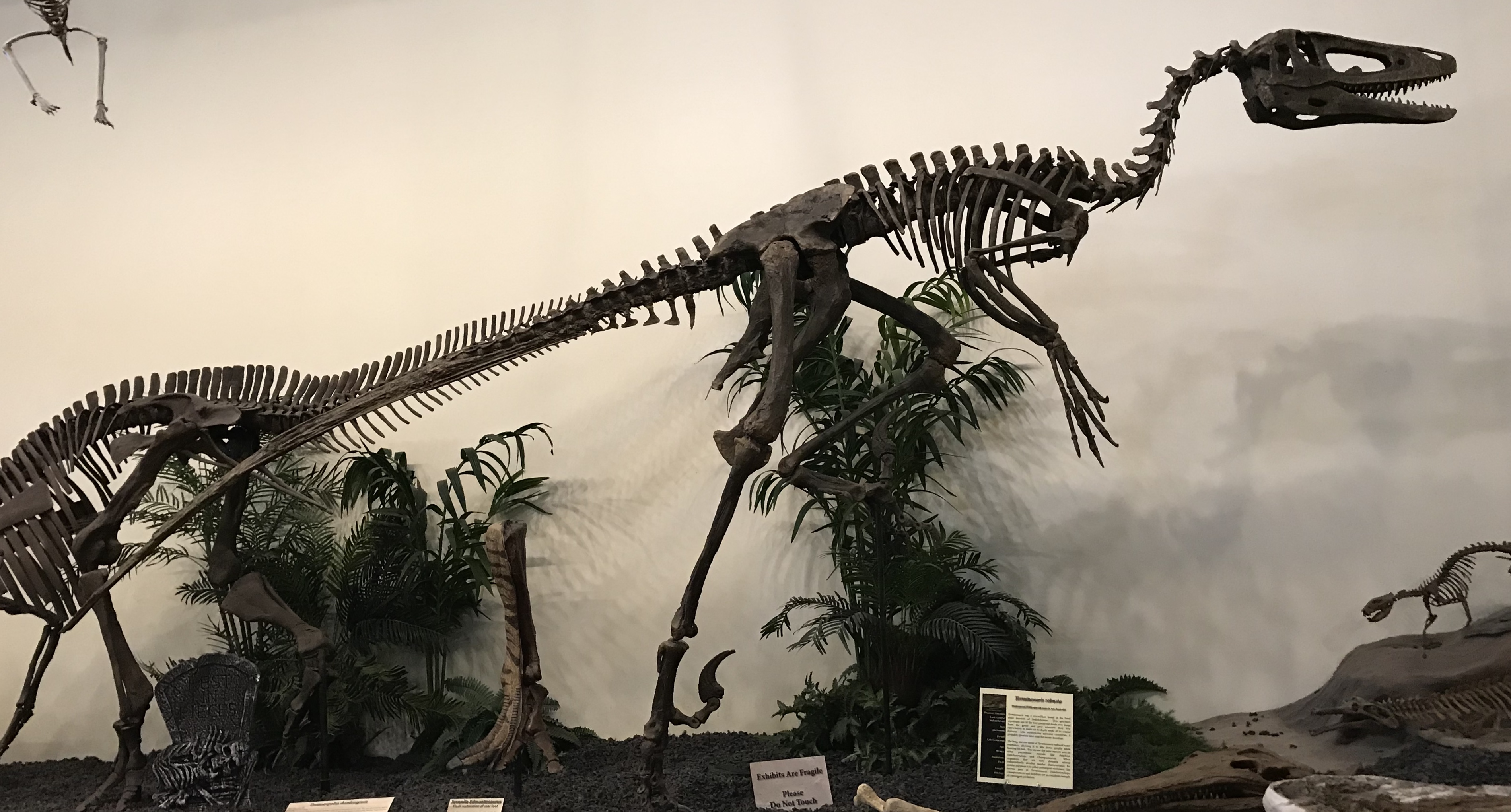 Dakotaraptor in Dinosaur Resource Center, Colorado.